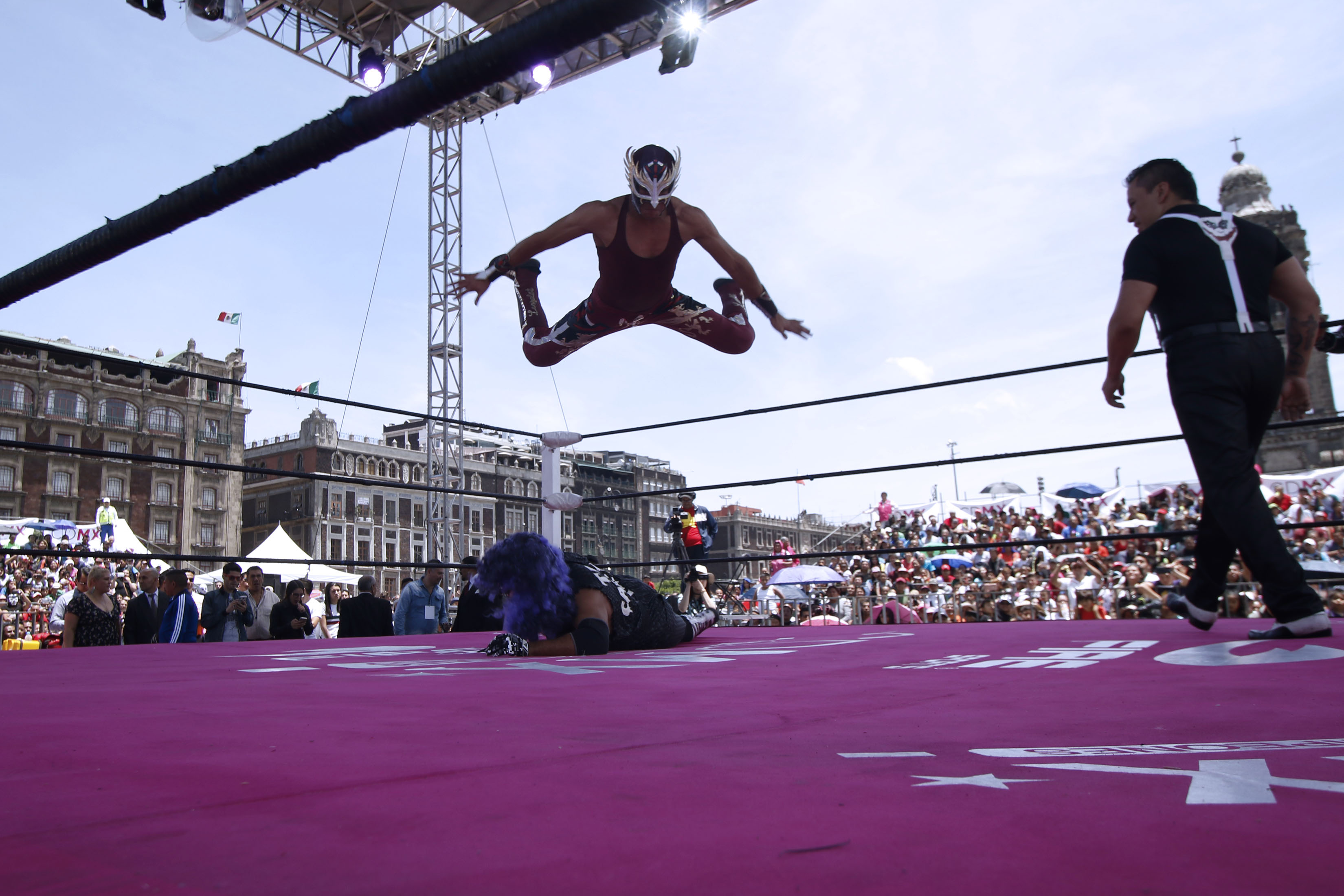 MX MM LUCHA LIBRE PATRIMONIO